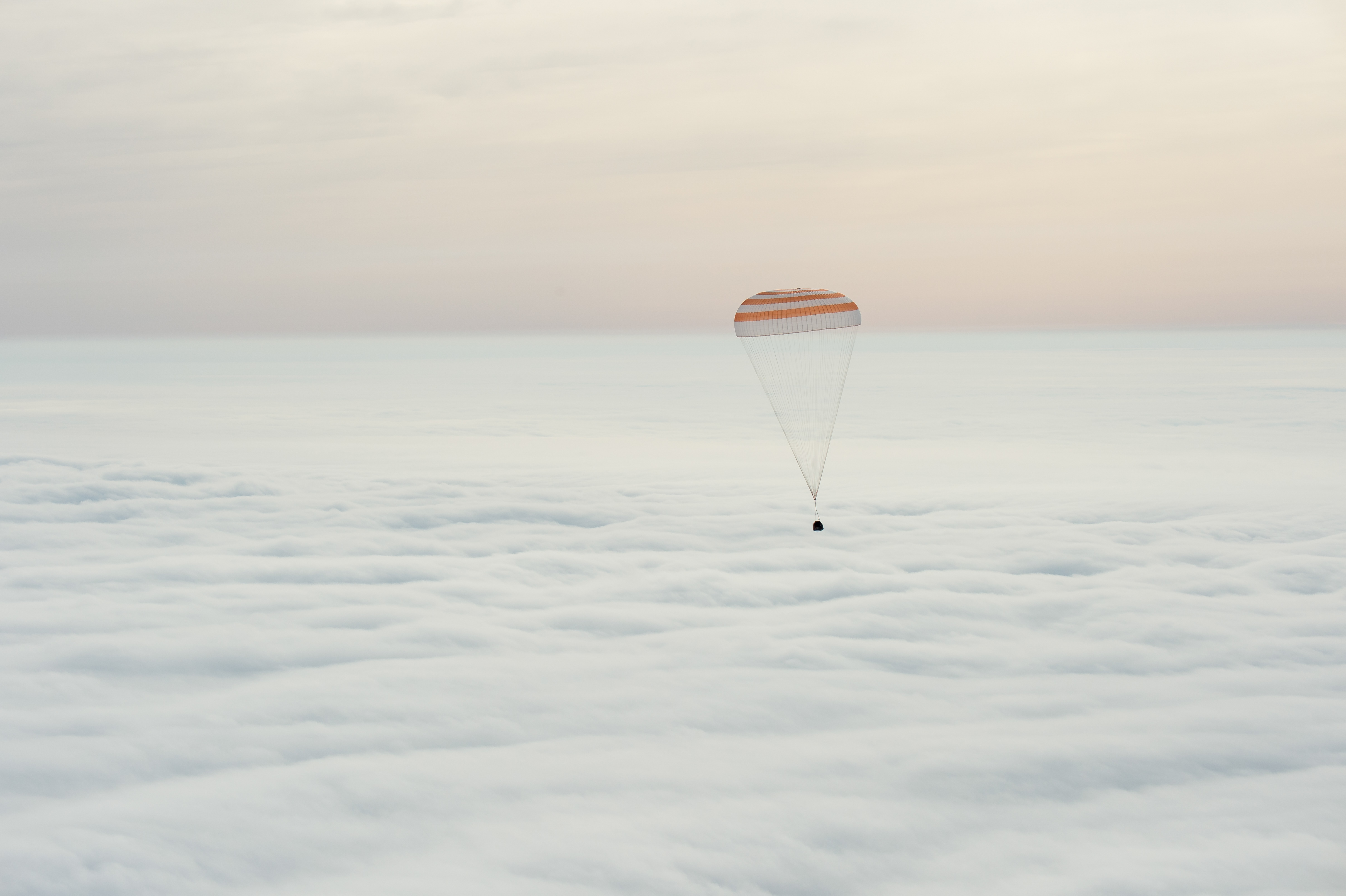 The Soyuz TMA-18M spacecraft is seen as it lands with Expedition 46 Commander Scott Kelly of NASA and Russian cosmonauts Mikhail Kornienko and Sergey Volkov of Roscosmos near the town of Zhezkazgan, Kazakhstan on Wednesday, March 2, 2016 (Kazakh time). Kelly and Kornienko completed an International Space Station record year-long mission to collect valuable data on the effect of long duration weightlessness on the human body that will be used to formulate a human mission to Mars. Volkov returned after spending six months on the station.